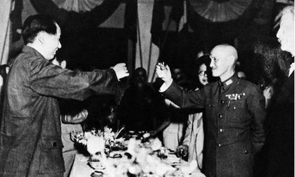 Mao and Chiang Kai-shek